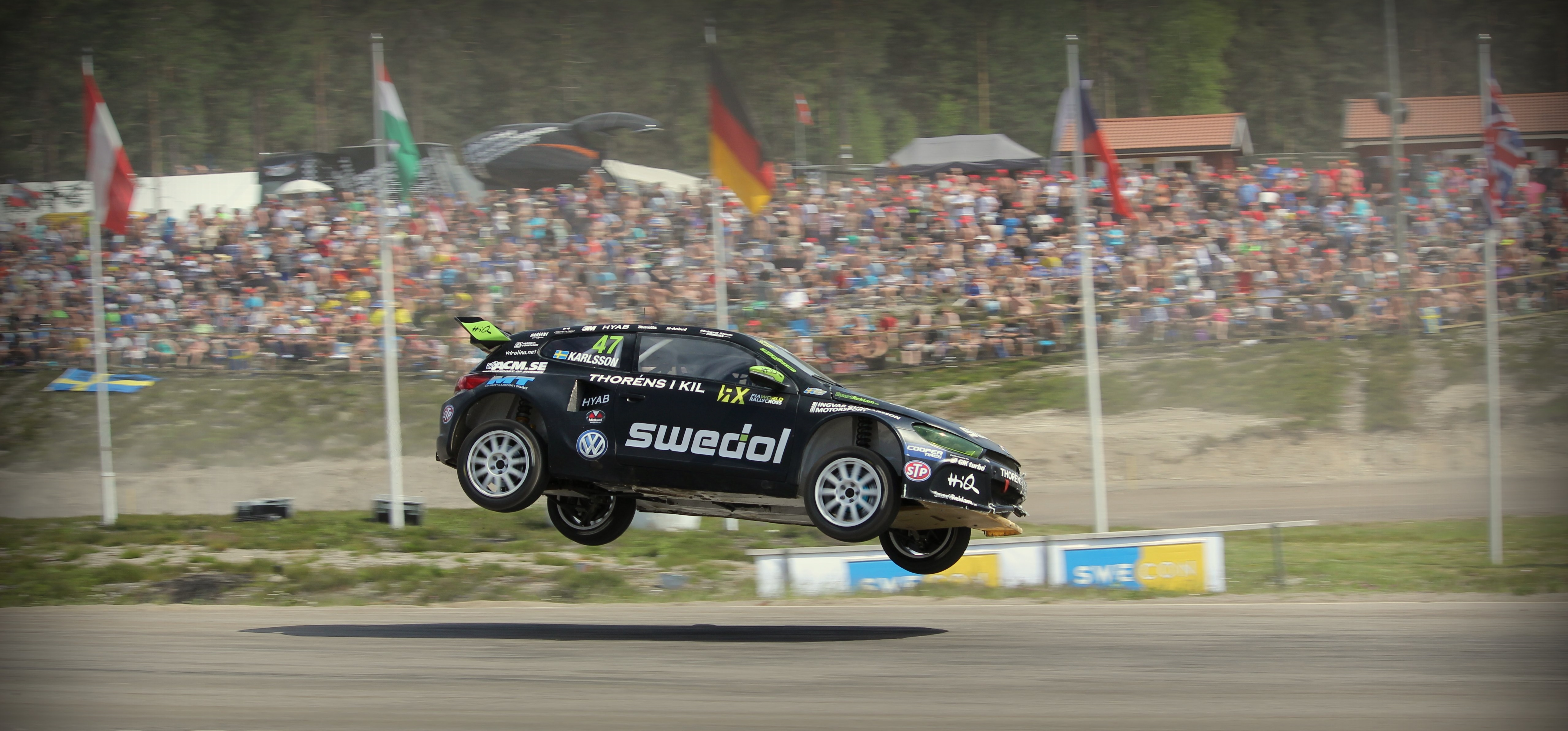 Swedish rallycross driver Ramona Karlsson in her VW Scirocco Supercar at Höljes Motorstadion, Sweden. Round 6 of the 2015 FIA World Rallycross Championship.